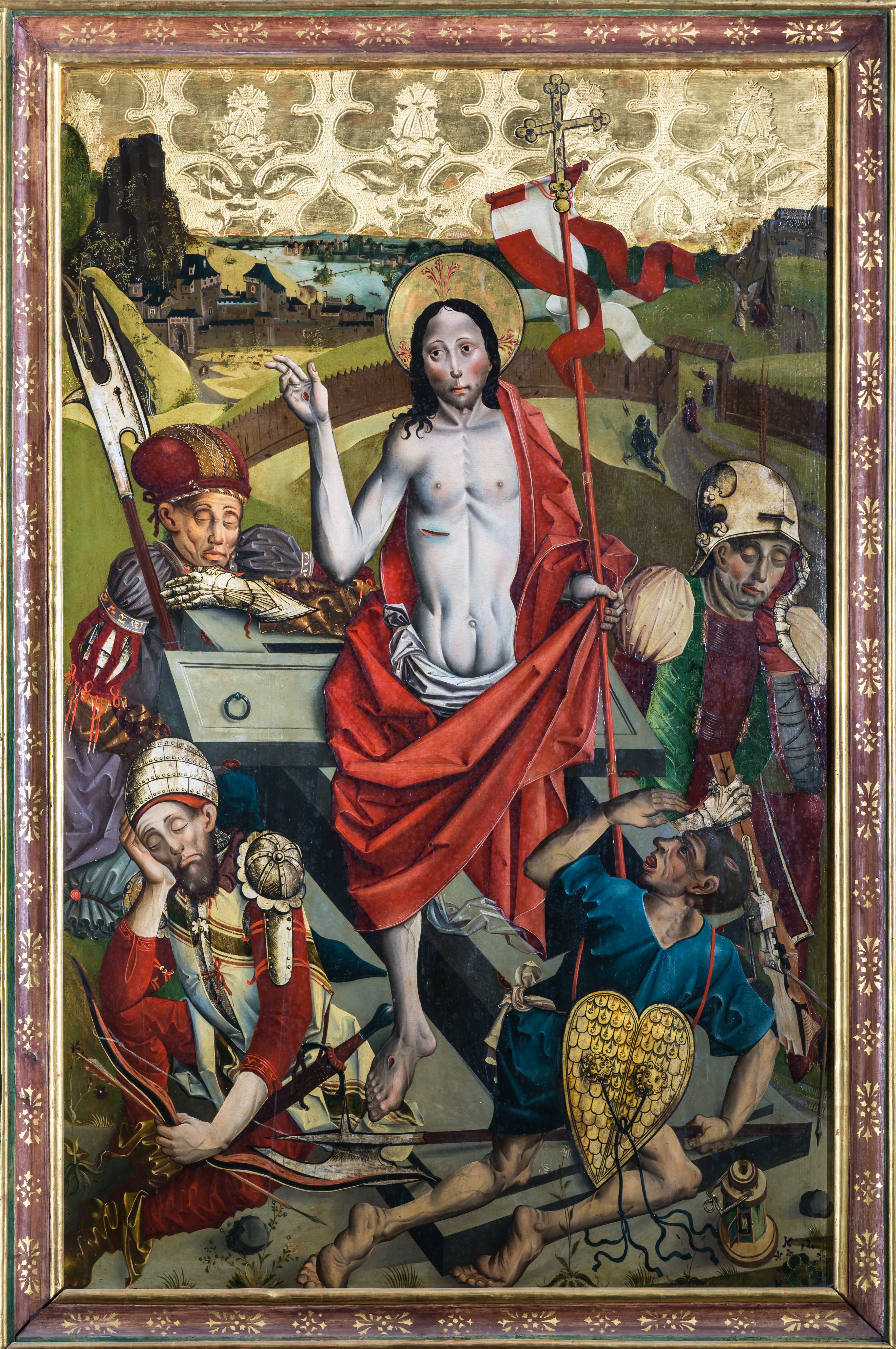 View of the winged altar for Sundays with closed inner wings.